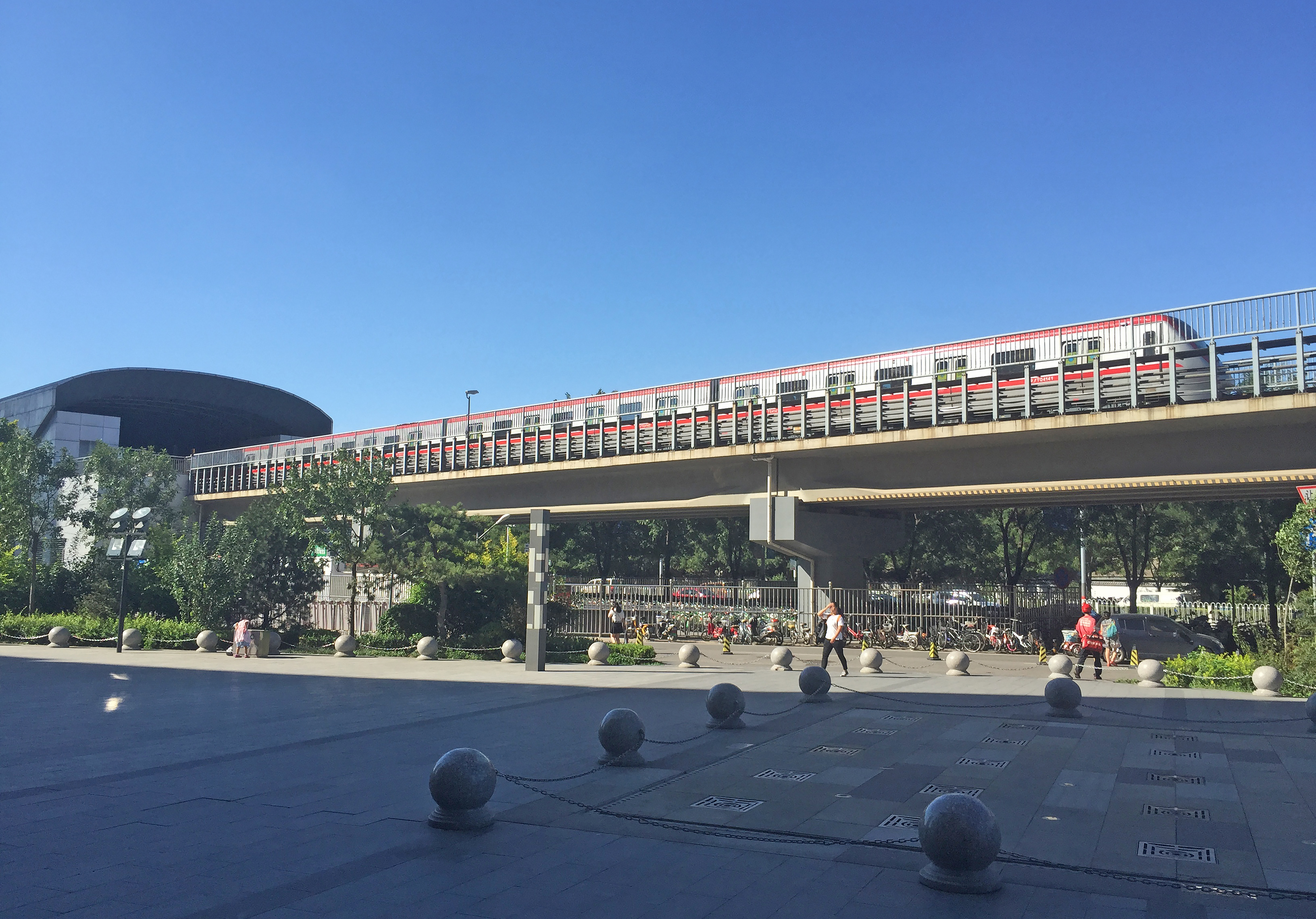 Got a snake...at the Roosevelt Plaza.